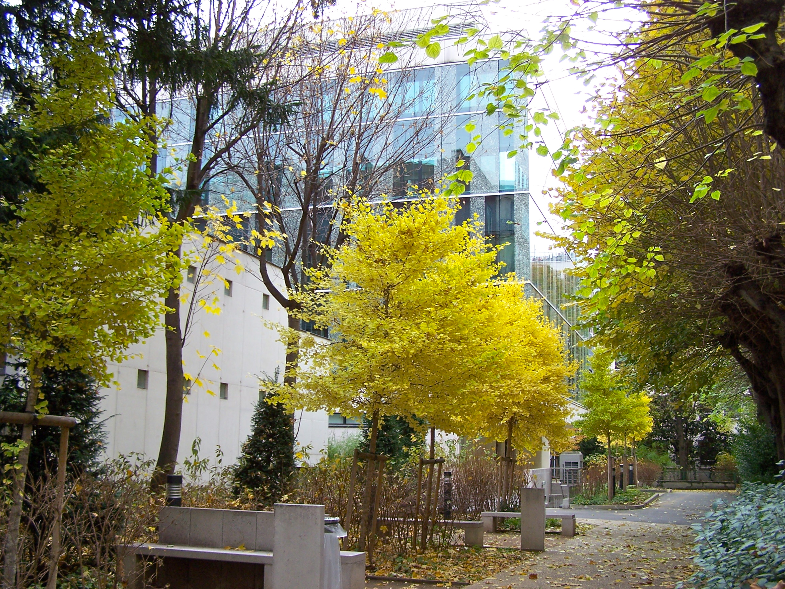 Bâtiment du Centre de recherche en biologie du développement et cancer de l'Institut Curie, vu depuis la rue Pierre-et-Marie-Curie, Paris